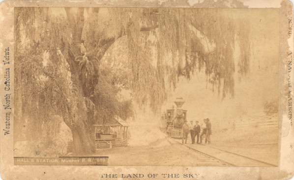 The Willets Depot in the 1890s, under its alternate name of Hall's Station/Hall's Siding, it was upgraded to a larger depot building later on, and the Depot at Willets hasn't existed since at least the late 1940s, when passenger service along the railroad was terminated.